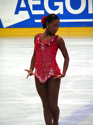 Vanessa James during her short program at the 2006 Junior Grand Prix event in The Hague, Netherlands